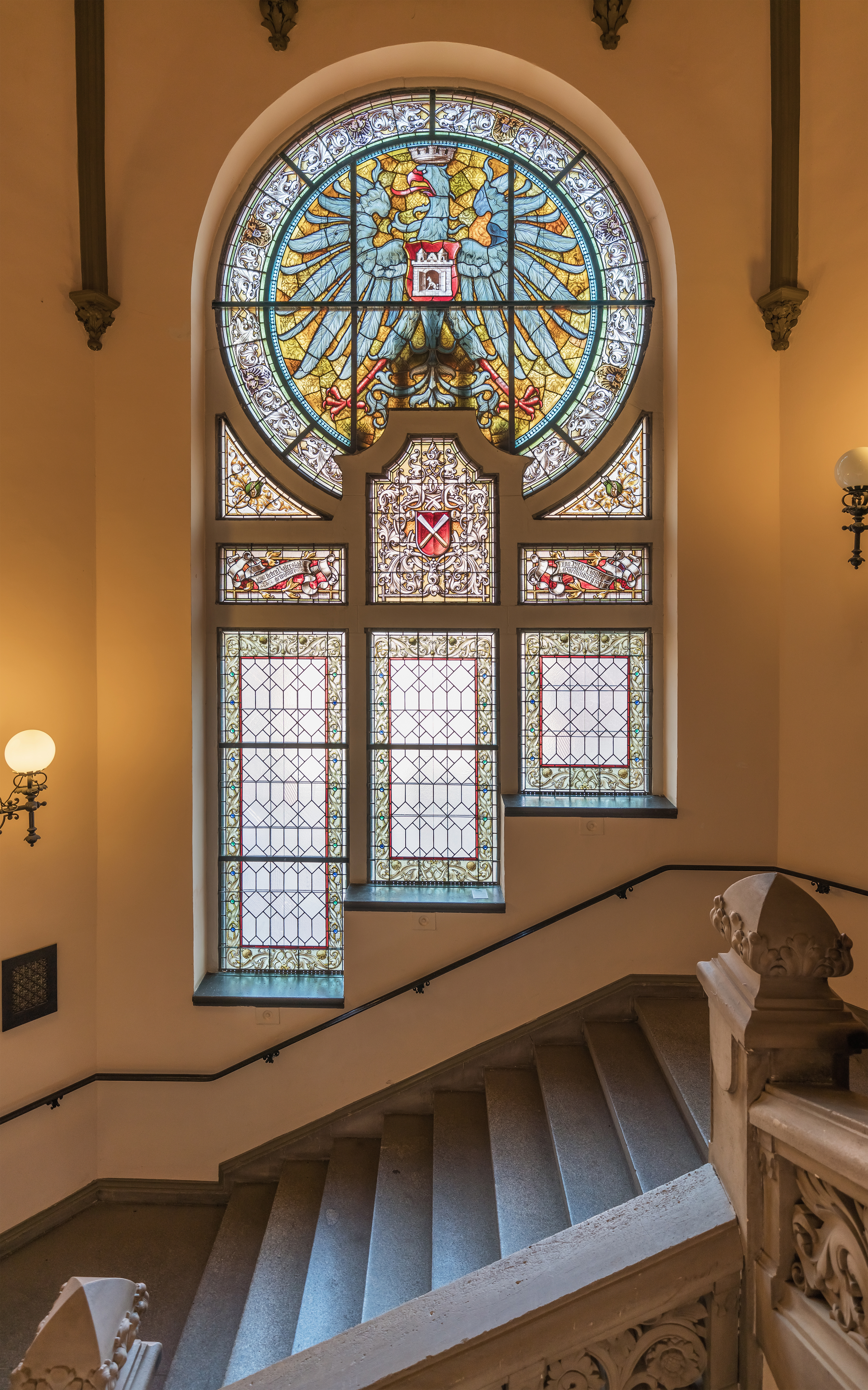 Town Hall in Quedlinburg, Germany